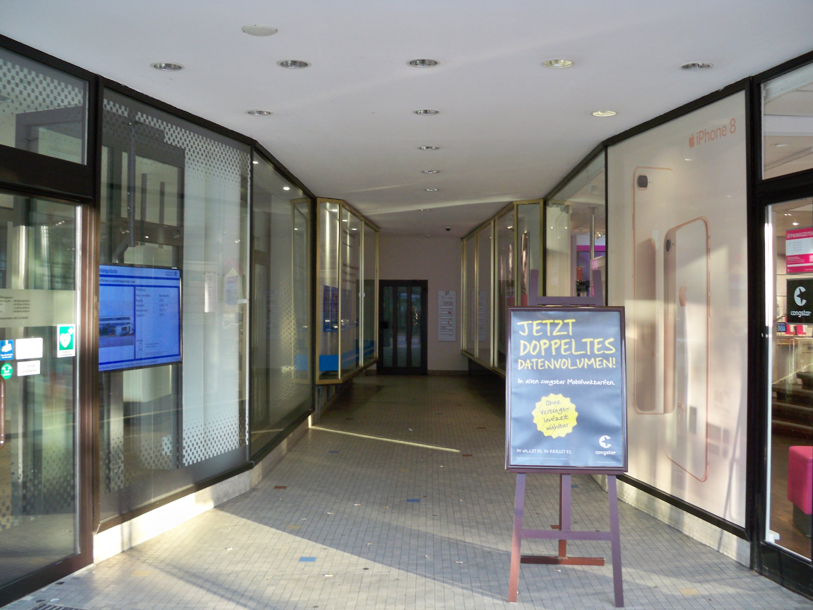 Wolfsburg, Lower Saxony, Rack building, main entrance